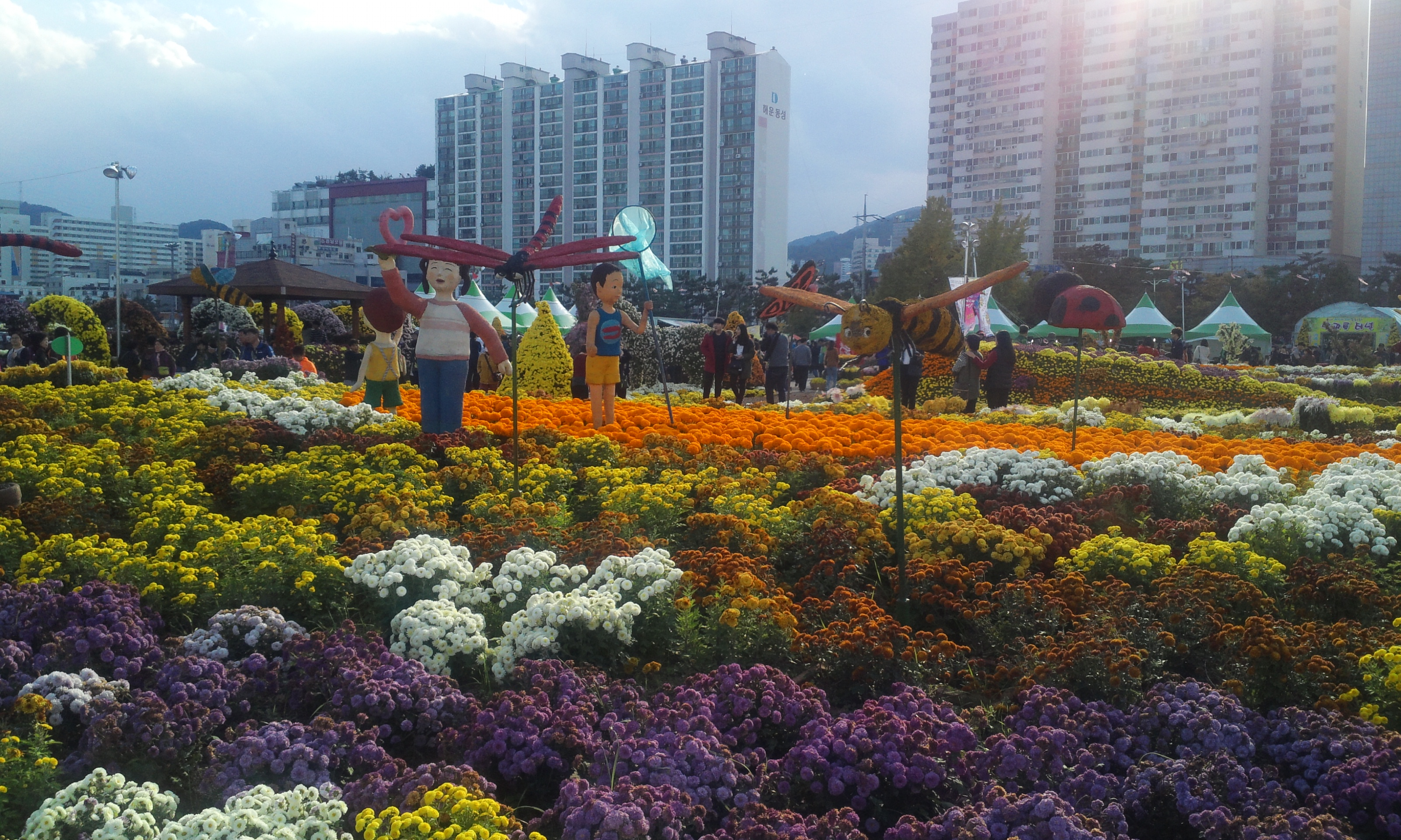 Chrysanthemums in Masan port during gagopa chrysanthemum festival on November 2nd, 2014